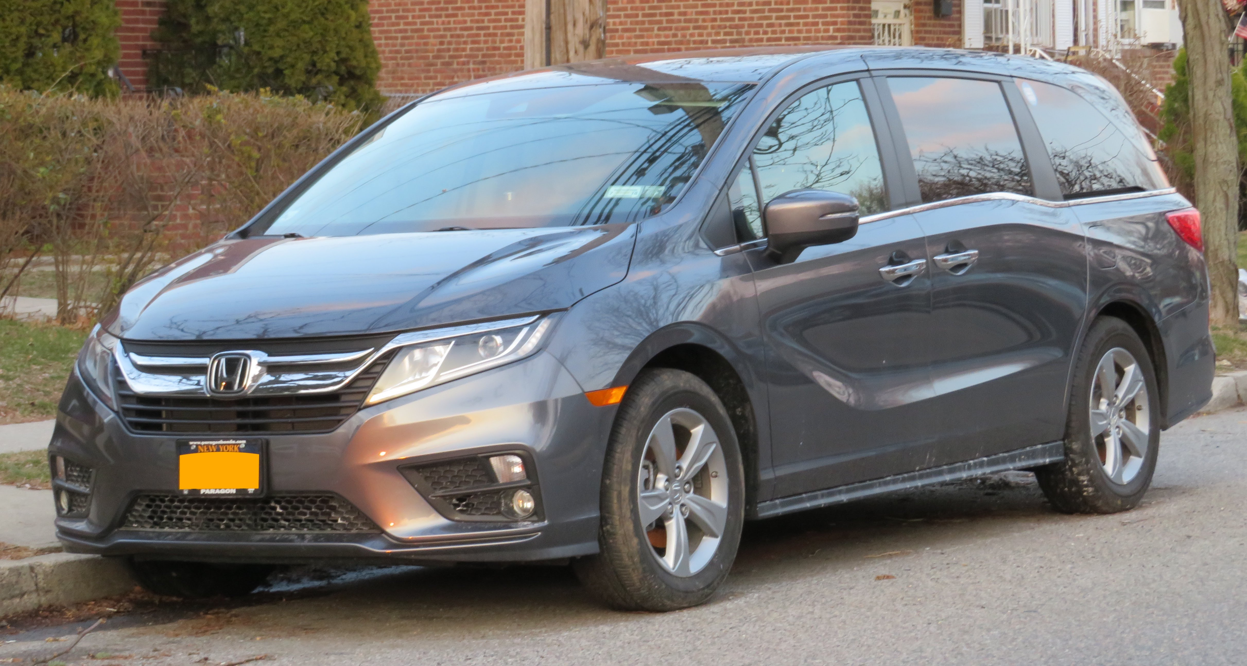 In Queens, New York